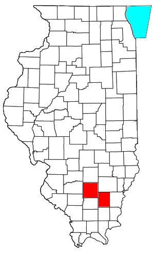 Locator map of the Mount Vernon Micropolitan Statistical Area in the southern part of the U.S. state of Illinois.